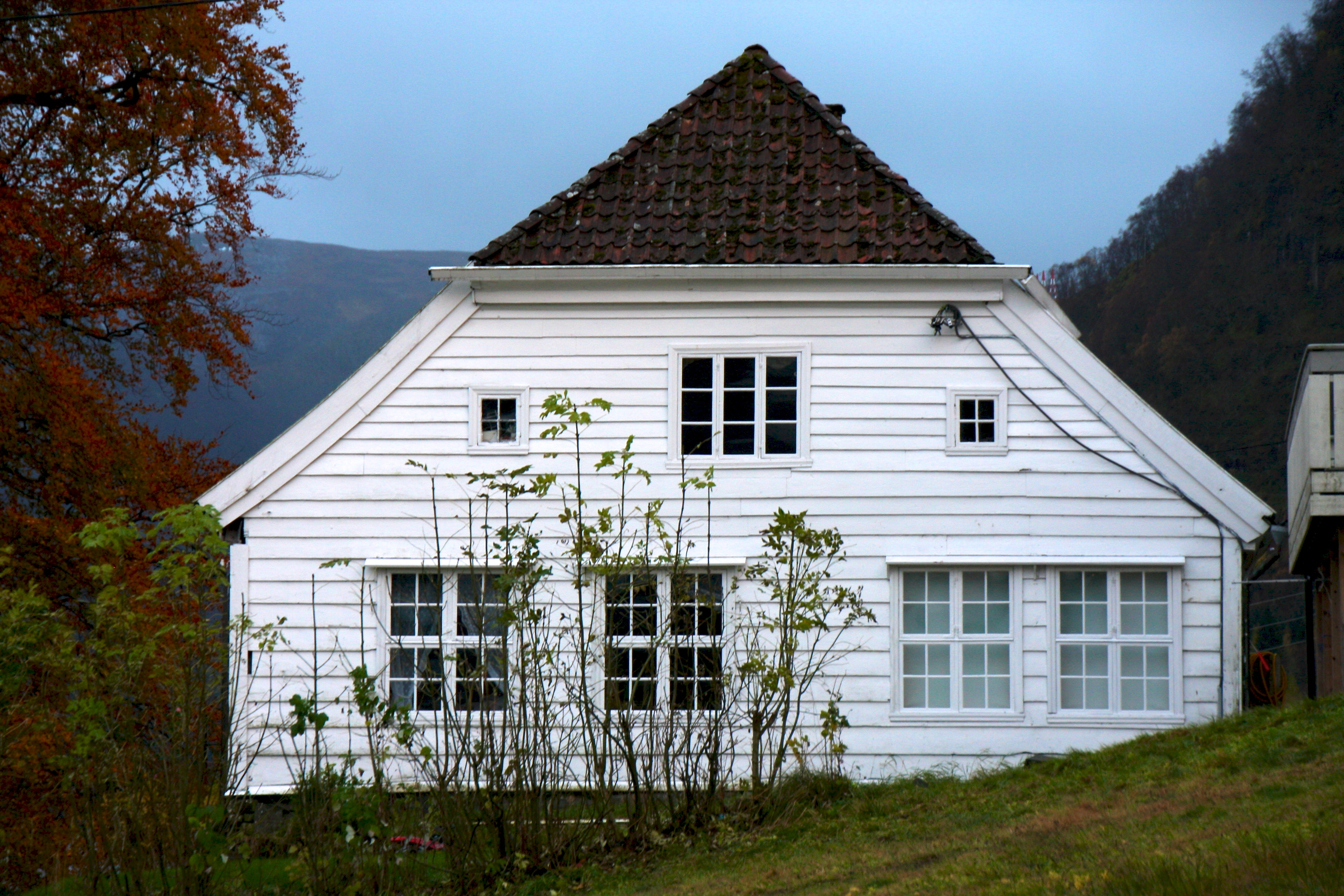 Lovisendal (Brekke) in Gulen municipality, Norway.